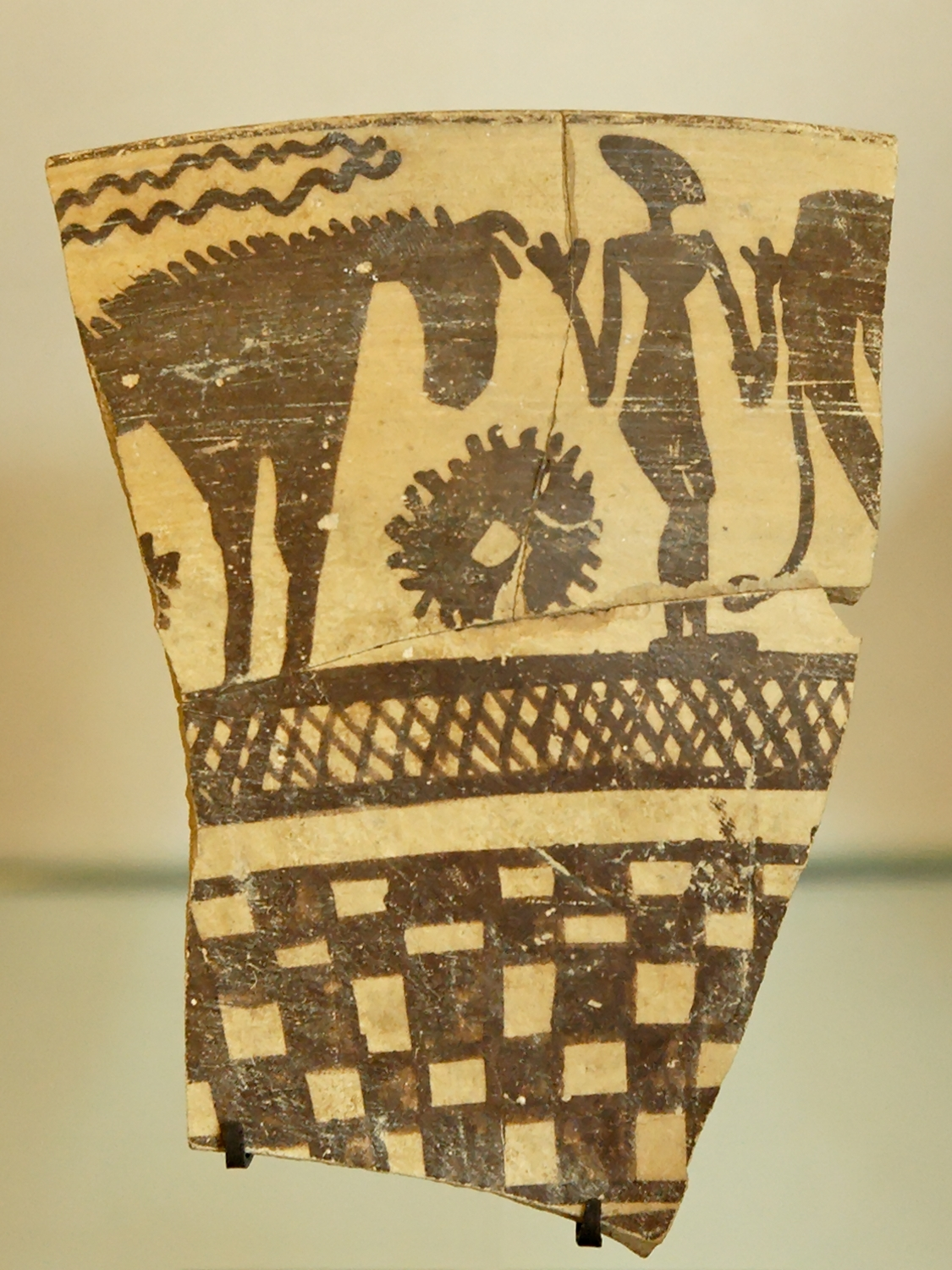 Fragment of pottery with a human figure standing between two equine figures. Terracotta, beginning of the 4th millenium BC, found at Tepe Sialk III (Iran), level 4 or 5, southern hill.